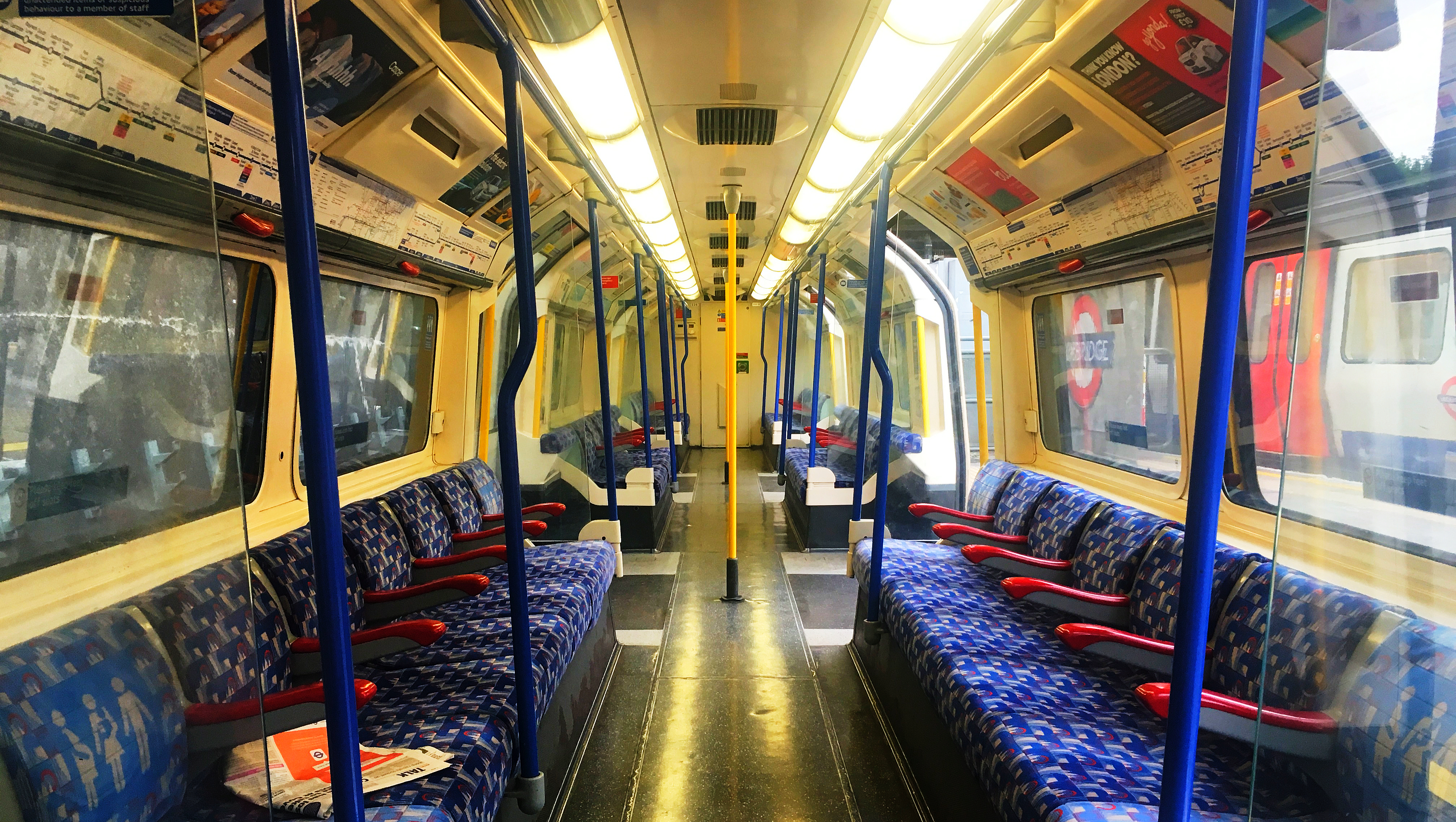 The refurbished interior of a London Underground 1973 tube stock Piccadilly Line train at Uxbridge.